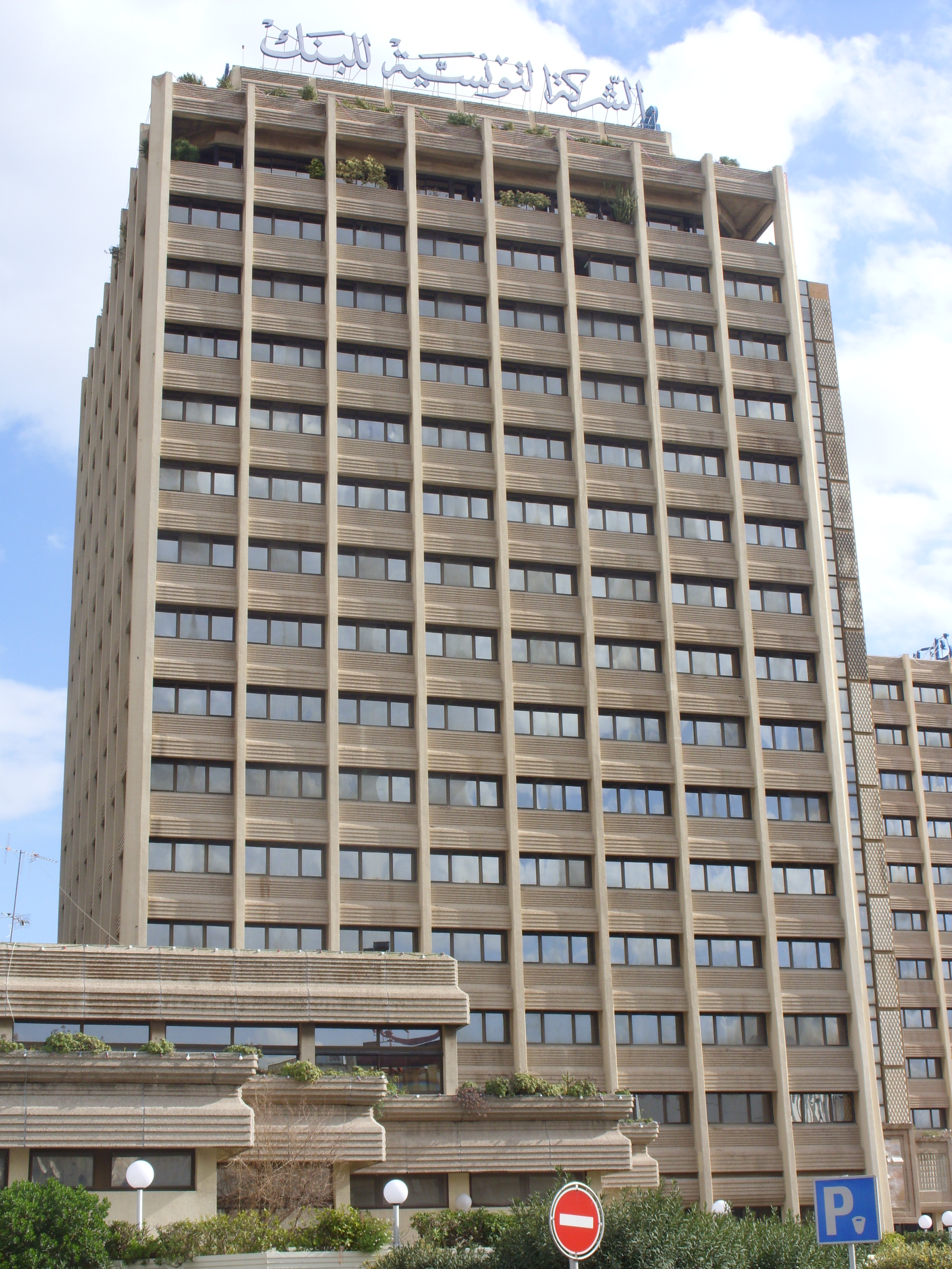 Société Tunisienne de Banque headquarters